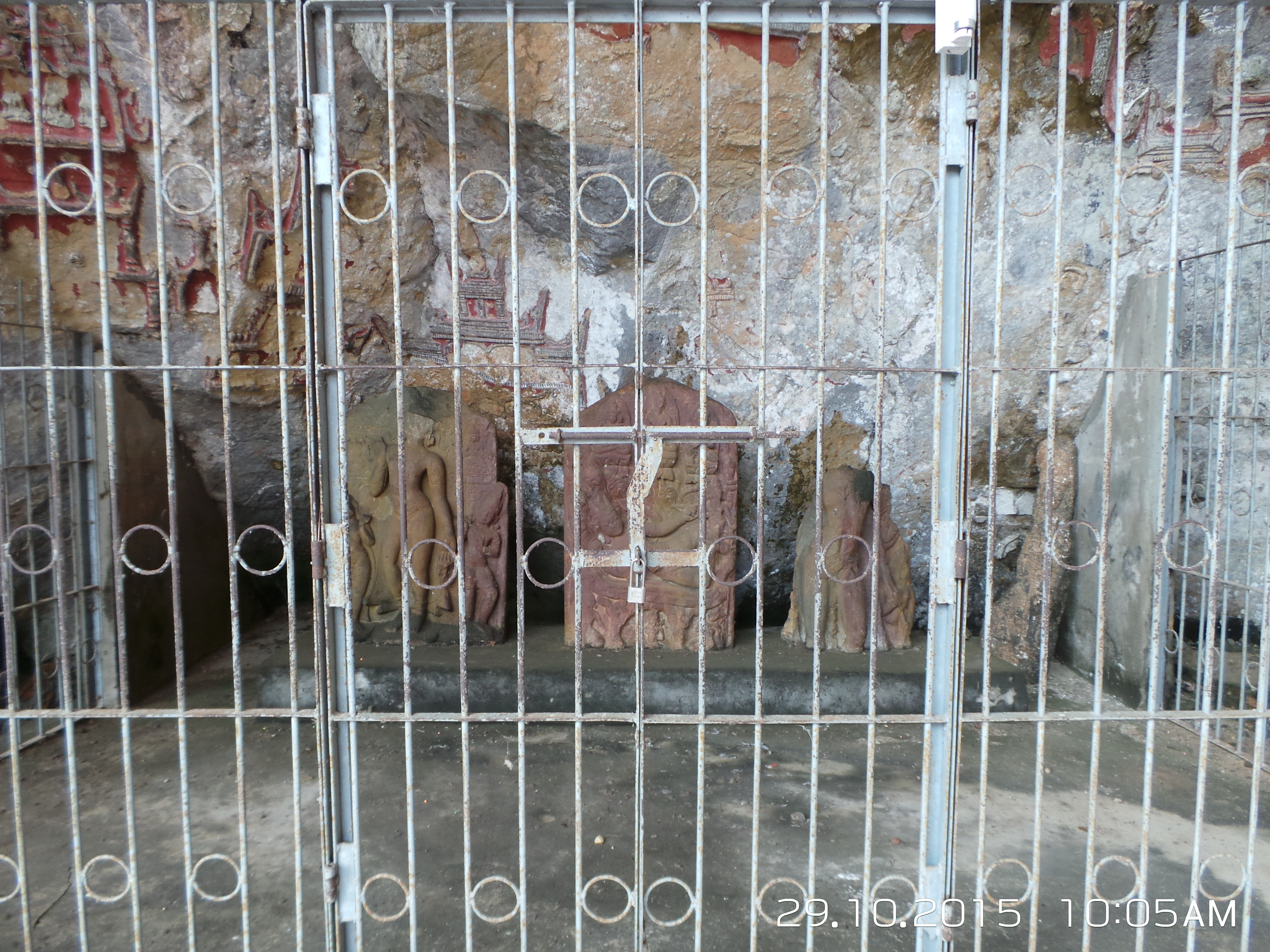 Historical Kawgun (Kawgoon) Cave is a natural limestone cave with clay Buddha images and terracotta votive tablets in its interior walls located in Hpa-An, Karen State, Myanmar.There can be seen the carved statues, sandstone Buddha statues, the mural paintings and the ink and carved Mon inscriptions. မြန်မာဘာသာ: သမိုင်းဝင် ကော့ဂွန်းဂူသည် သဘာဝထုံးကျောက်လိုဏ်ဂူများအတွင်း၌ ဗုဒ္ဓဘာသာဆိုင်ရာကိုးကွယ်မှု အမွေအနှစ်များနှင့် ယဉ်ကျေးမှုအမွေအနှစ်များ ကျန်ရှိနေမှုအများဆုံးနေရာတစ်ခုဖြစ်ပြီး ကရင်ပြည်နယ် ဖားအံမြို့အနီးတွင်တည်ရှိသည်။